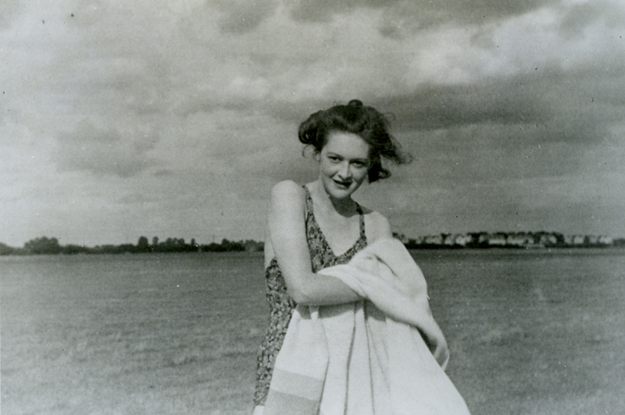 An MI5 staff member pictured on beach. This ordinary looking snapshot planted as part of a complex Second World War intelligence plan known as Operation Mincemeat. The intention was that this photograph would make other documents secreted with it seem more authentic. These documents, passed on to German agents after they were found on a body washed up on the coast of Spain (planted by British intelligence) suggested that the Allies were not planning an invasion of southern Europe via Sicily. This led to a weakening of German defence of Sicily which assisted the eventual Allied attack.